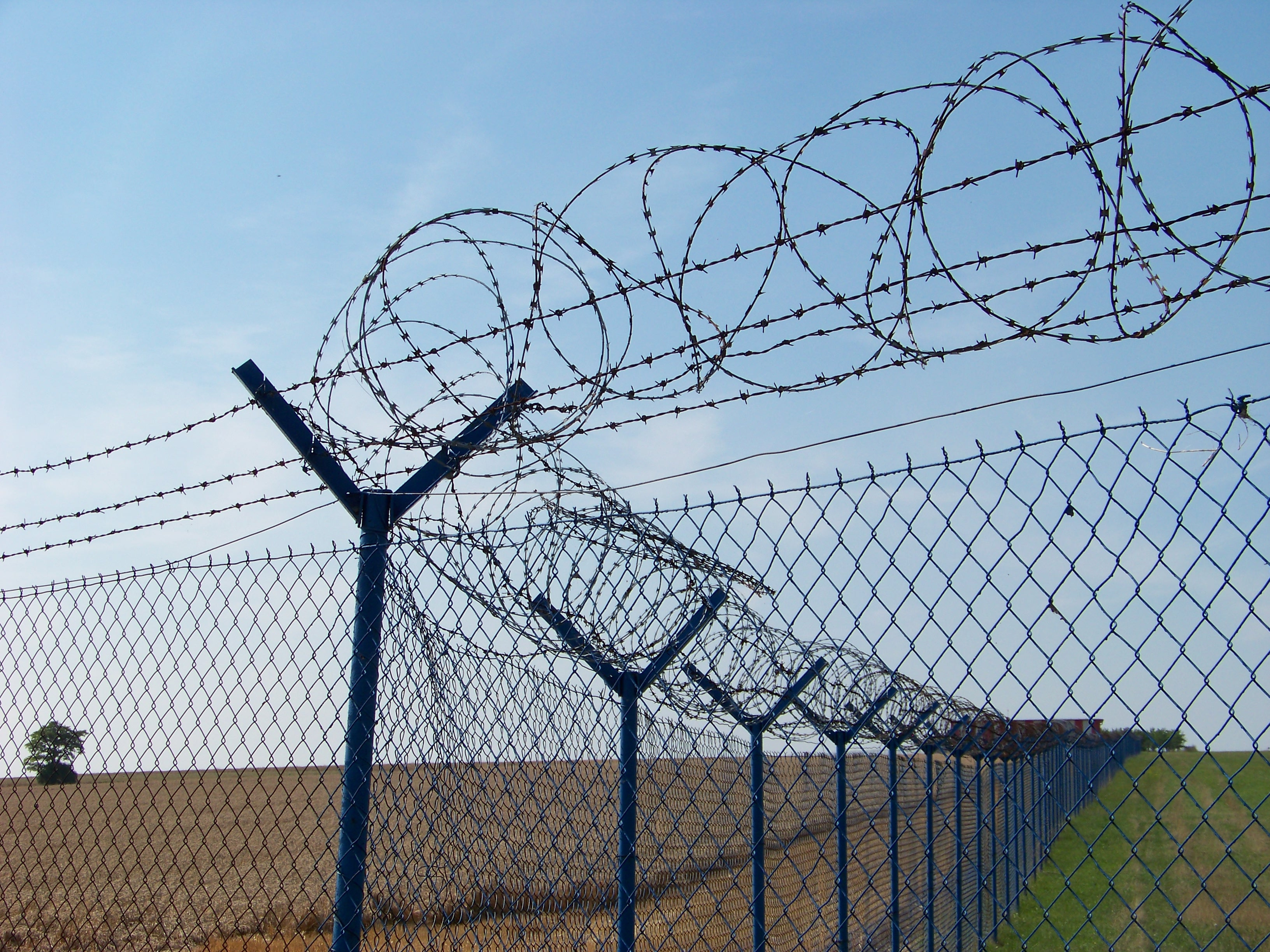 Prague-Ruzyně, the Czech Republic. Prague Václav Havel Airport. A runway 31/13.